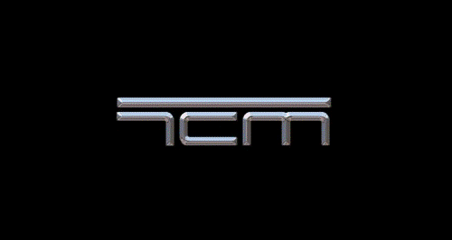 The Crystal Method Logo